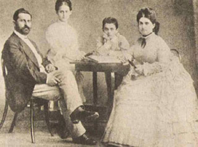 Theodor Herzl\'s childhood with his family at home in Budapest.